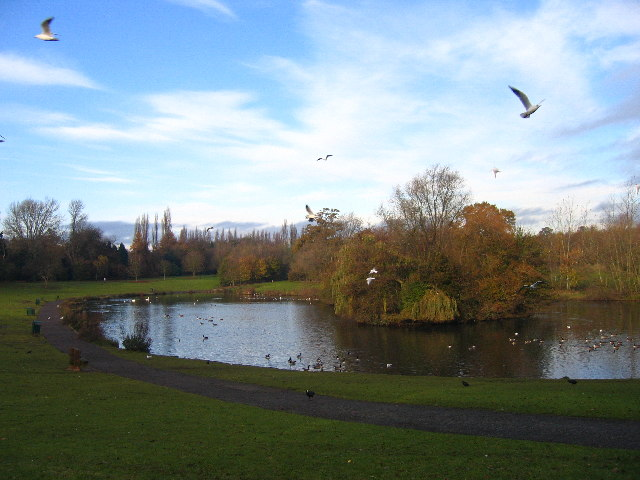 Braunstone Park, southeast side. taken from walking path just off Braunstone Avenue copyright 2005 by Tammy Winand